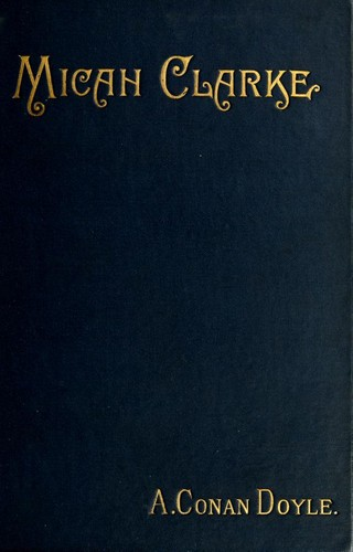 1st edition cover of Micah Clarke